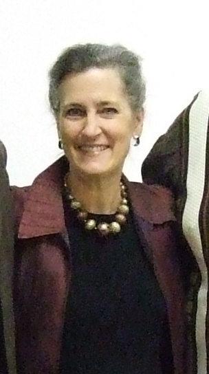 Rev. Kim Bobo at a Faith Empowerment Breakfast in Indianapolis